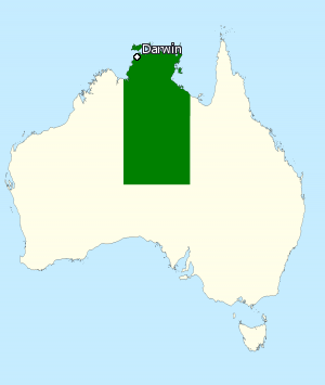 Incorporates or developed using Administrative Boundaries ©PSMA Australia Limited licensed by the Commonwealth of Australia under Creative Commons Attribution 4.0 International licence (CC BY 4.0). Derived from State and Territory Boundaries from the Australian Bureau of Statistics under Creative Commons Attribution 2.5 Australia license (CC BY 2.5 AU)